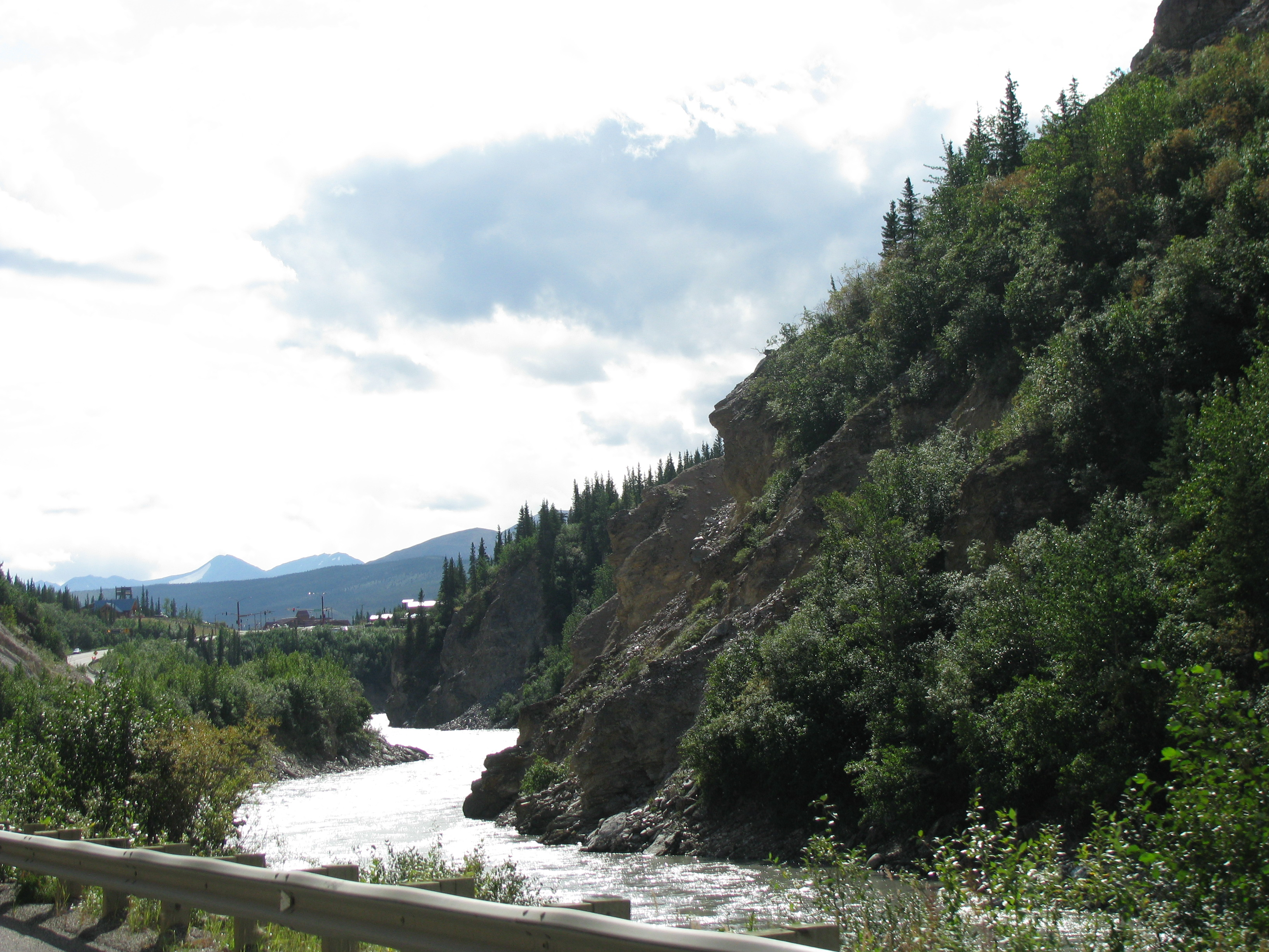 Nenana River from Parks Highway near Denali, Alaska, USA. Photographed on 17 August 2009